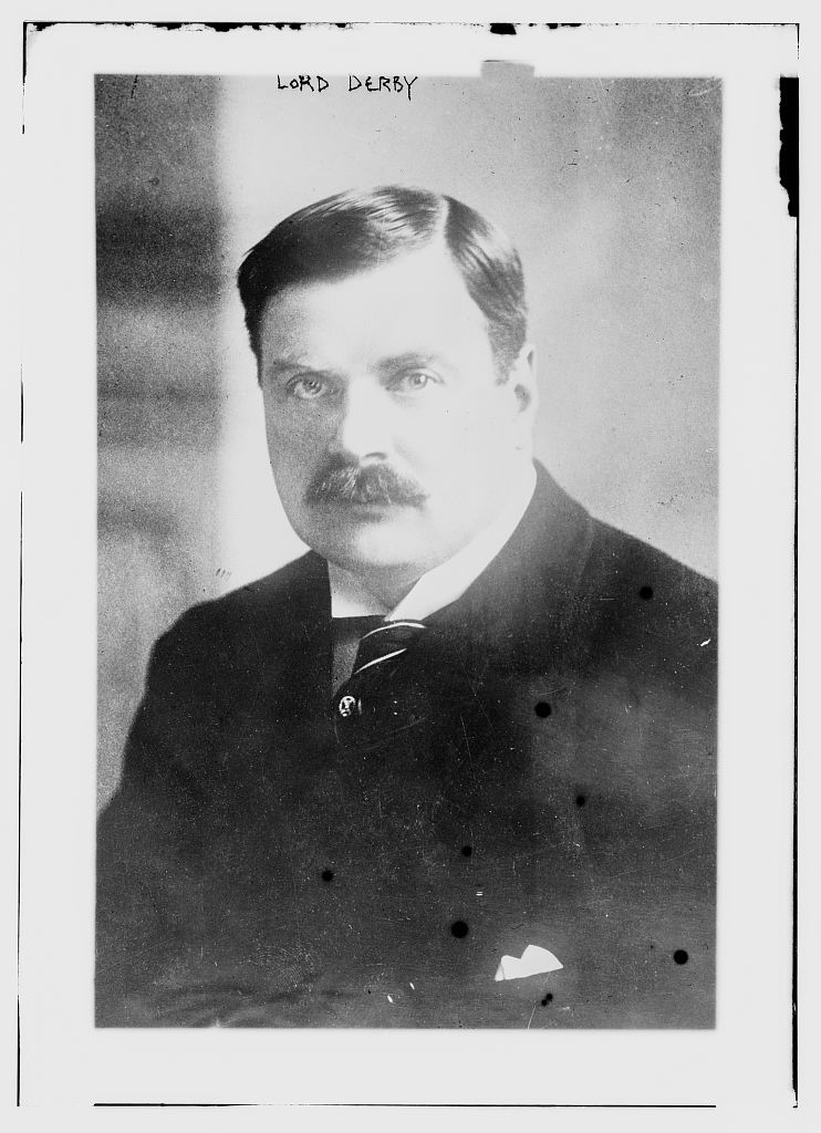 Edward Stanley, 17th Earl of Derby circa 1917